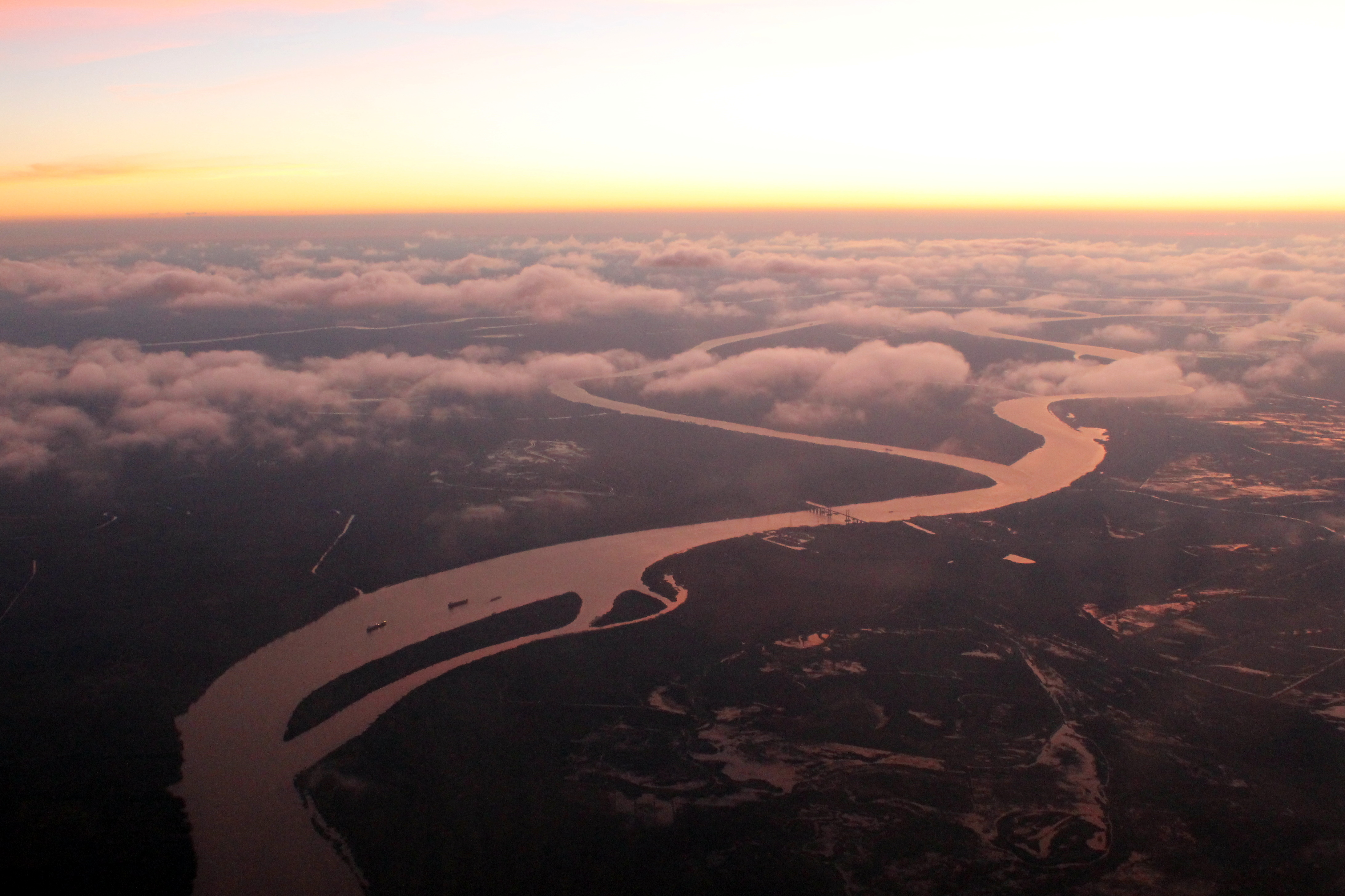 Sundown over Paraná Guazú river, border between Buenos Aires and Entre Ríos.